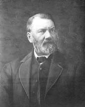 Montana Territory Governor Benjamin F. Potts (1836-1887)